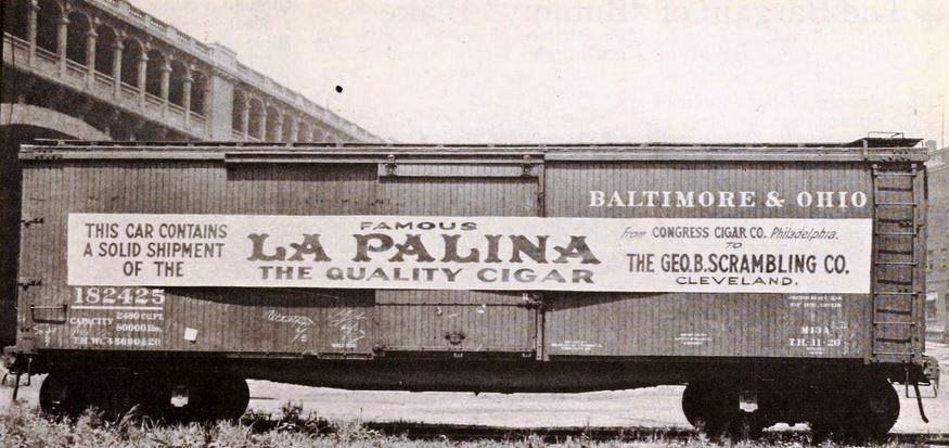 Railroad car of the Baltimore and Ohio Railroad filled with La Pailina cigars, on page 21 of the July 1921 Baltimore and Ohio Magazine.